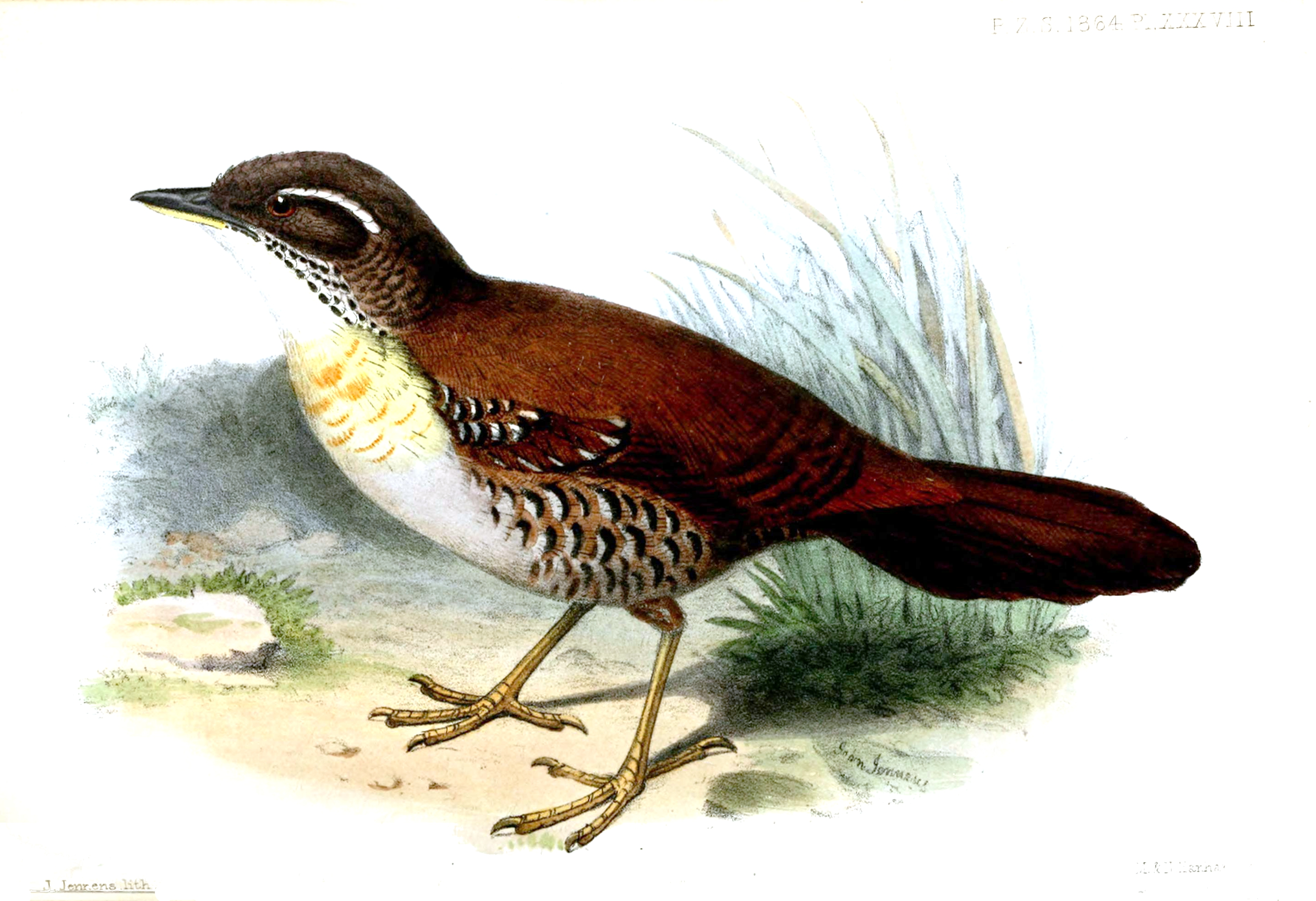 Pteroptochus thoracicus = Liosceles thoracicus